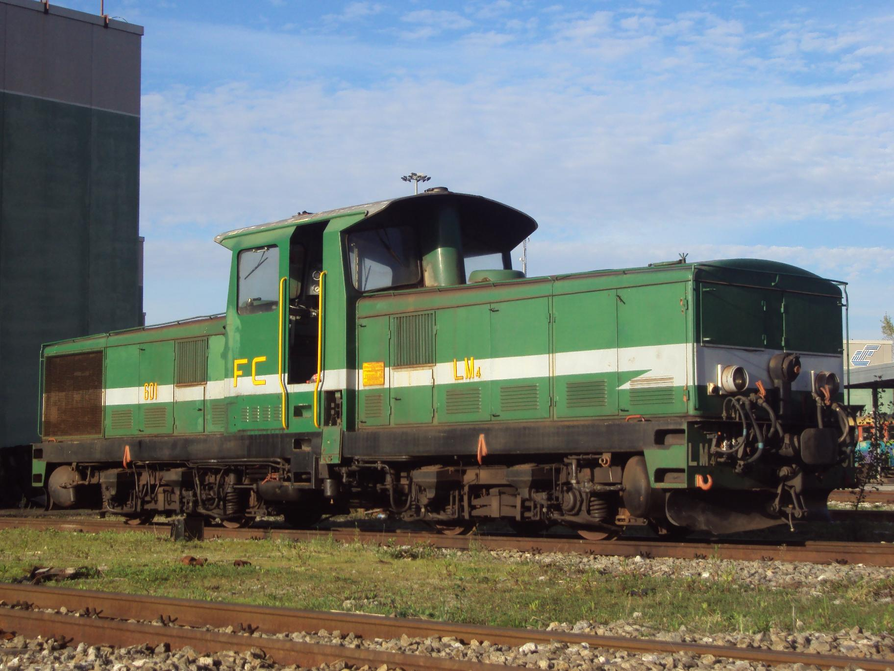 Ferrovie della Calabria's Diesel-Hidraulic shunter LM4.601 standings at Cosenza